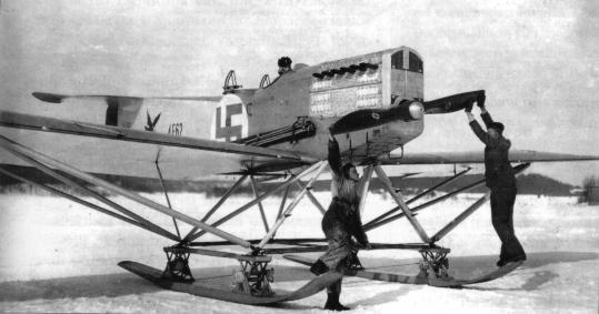 Photo of IVL A.22 Hansa on skis samf4u.jpg